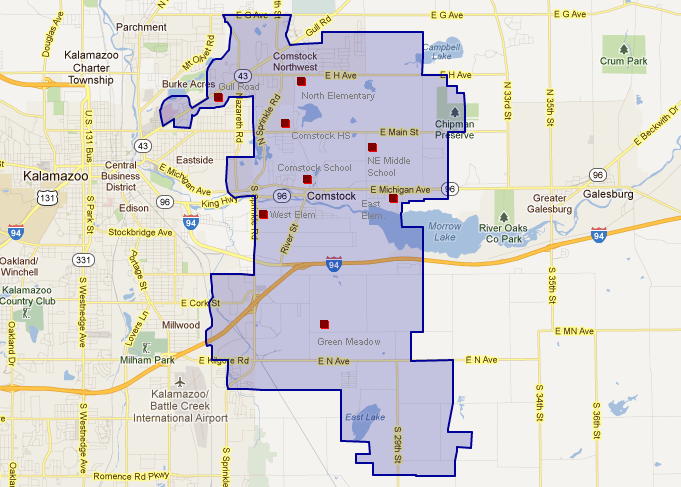 District map for Comstock Public School District located in Kalamazoo, MI